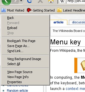 croped screenshot showing menu window (accessed by pressing menu key) on Windows 2000 shown over the Menu Key article on Wikipedia in Mozilla Firefox.